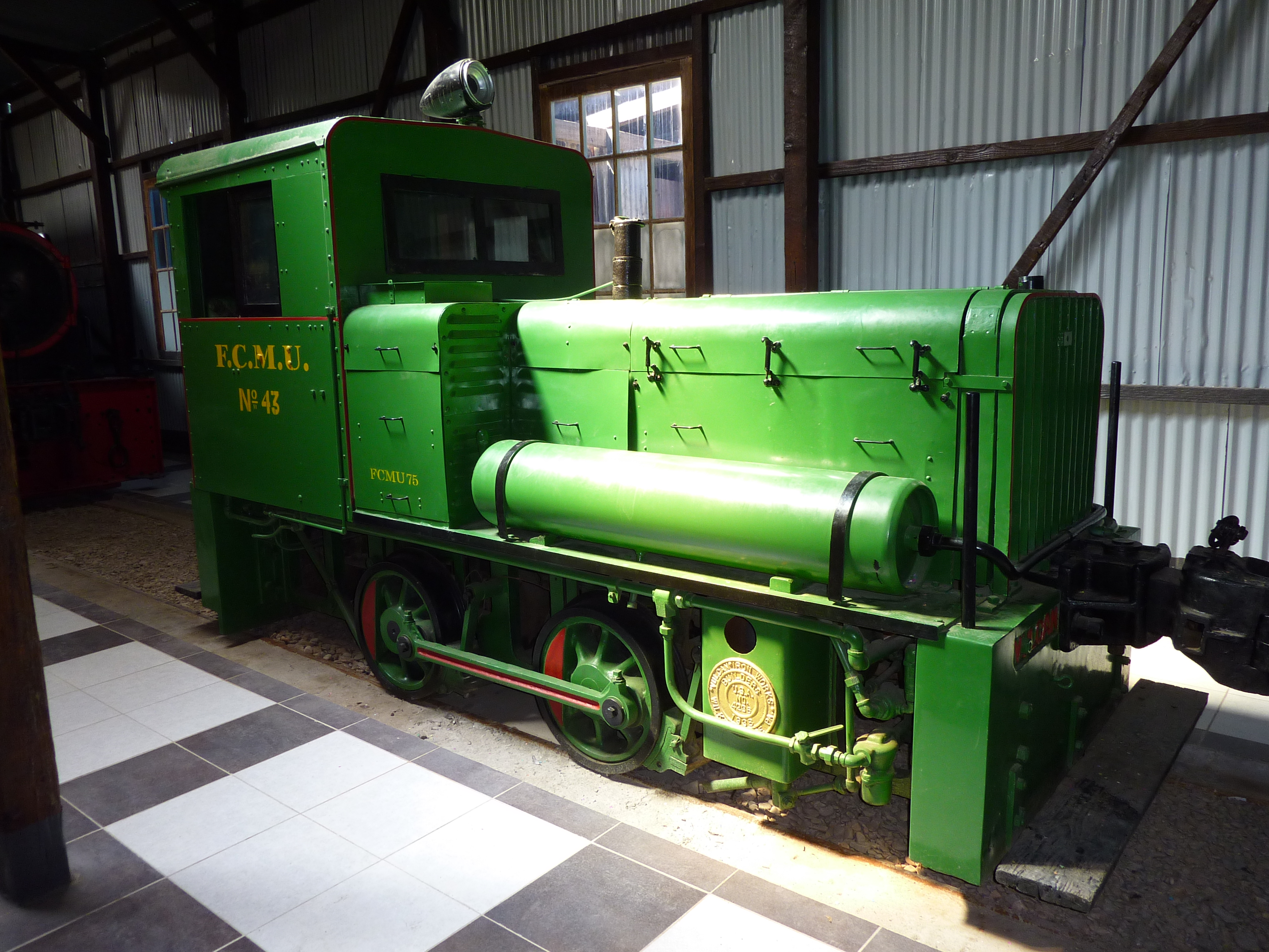 Small Diesel-engine in Machacamarca Railway Museum in Bolivia